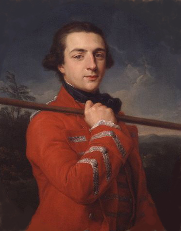 Portrait of Augustus Henry FitzRoy, 3rd Duke of Grafton, Prime Minister of Great Britain